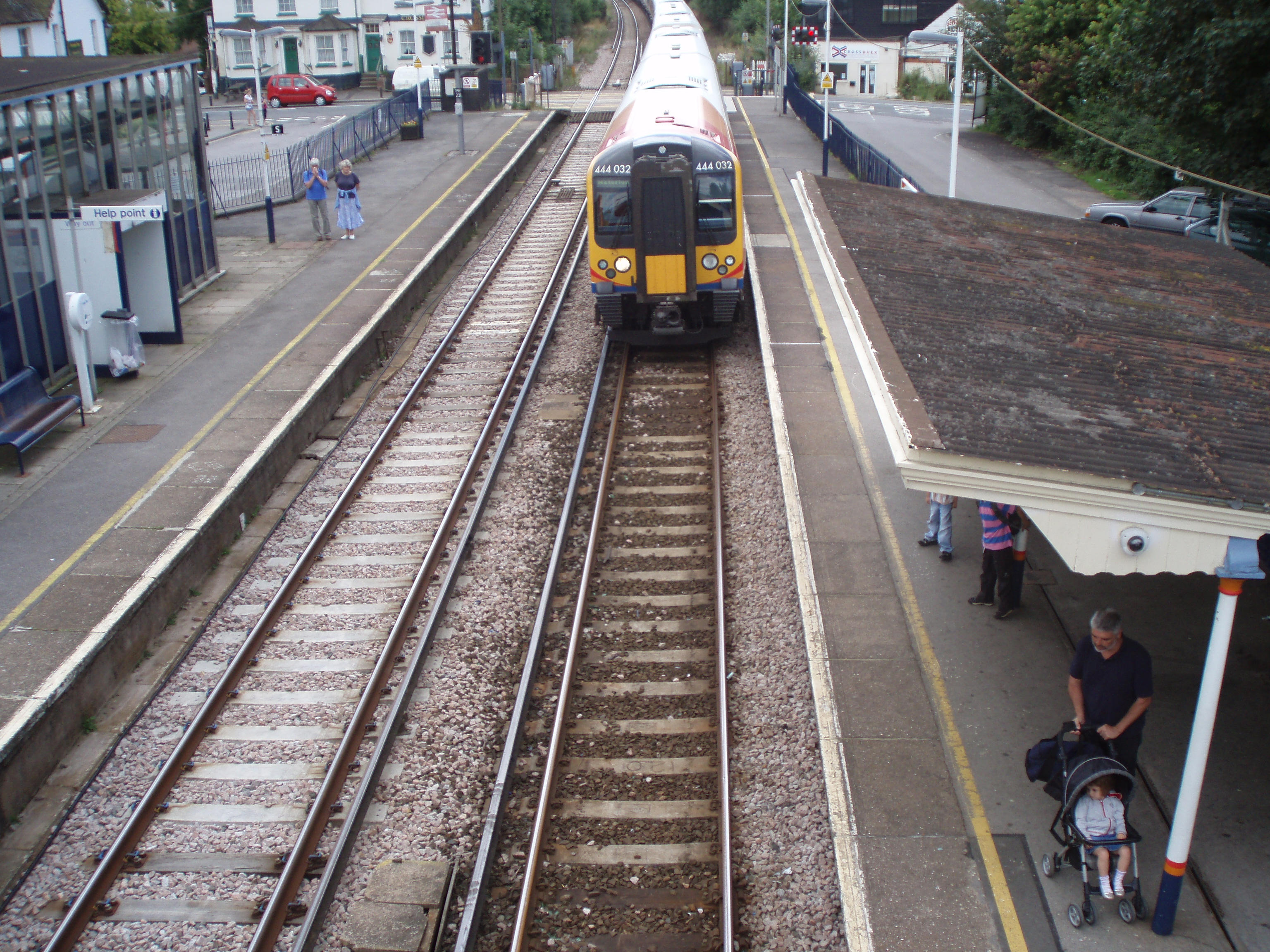 Photo taken 13th August 2007